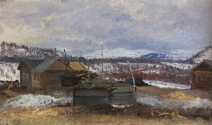 Alexander Borisov. Lopar village "Moscow" near Pechengsky monastery at Murman, 1896. Oil on canvas on carton. Tretyakov Gallery, Moscow